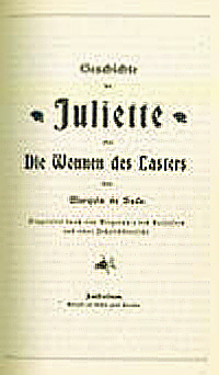 Juliette (novel) title page